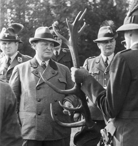 cropped